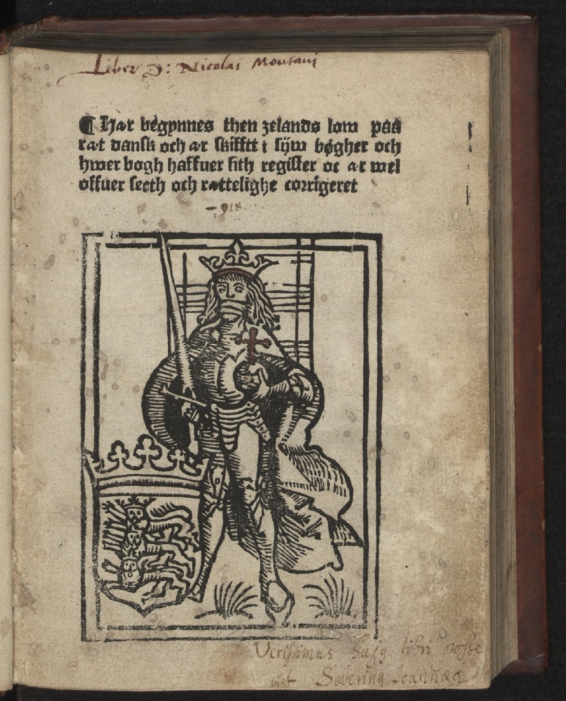 The title page from Sjællandske Lov (The Law of Zealand), which was a medieval law, governing the middle part of the Danish kingdom (The islands Zealand, Lolland, Falster, Møn). It was valid until 1683, when a single Danish law replaced it. This is the first printed version. The illustration is a repeat from Ghemen's chronicle of 1495.